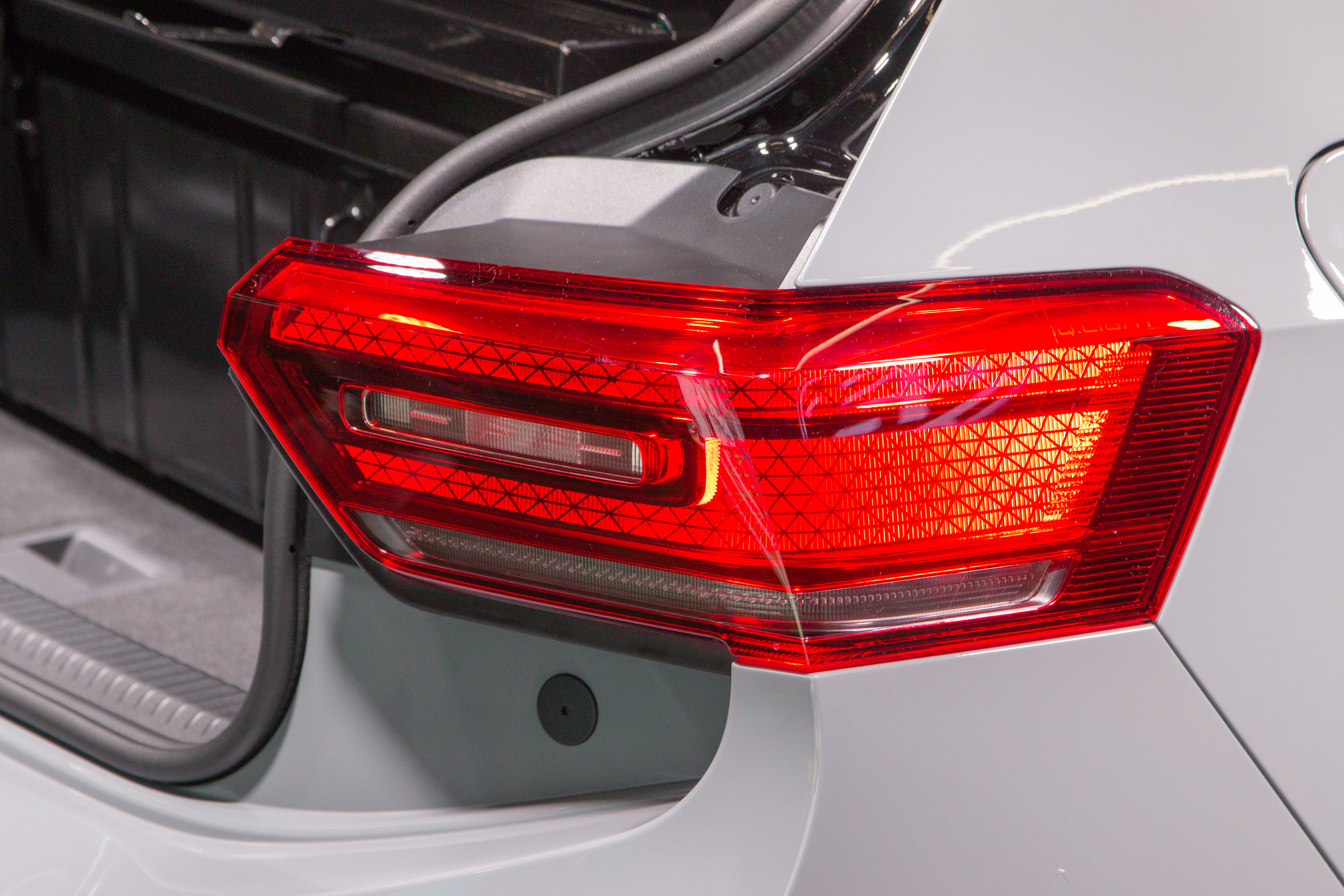 VW ID.3